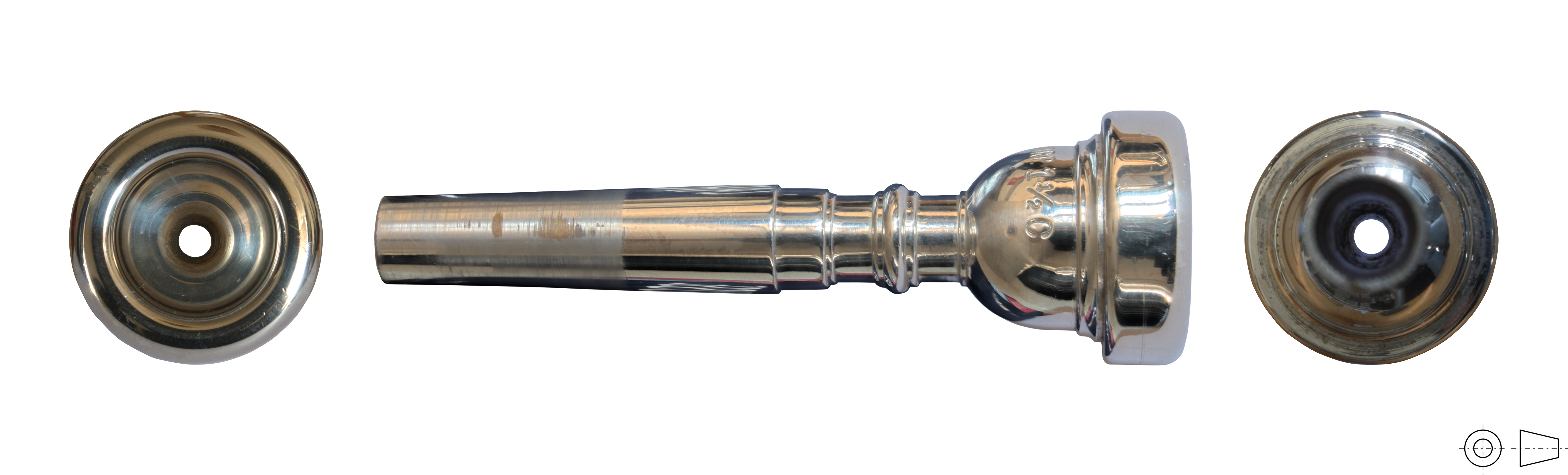 A trumpet mouthpiece. Depicted model is a Vincent Bach 1½C. Vue technique disposée suivant la norme de projection française.